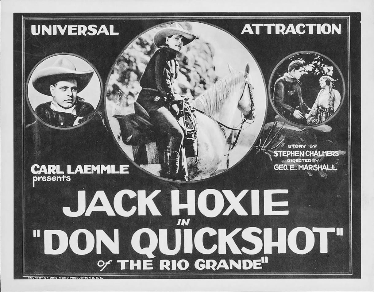 This is a lobby card for the 1923 American silent Western film Don Quickshot of the Rio Grande.